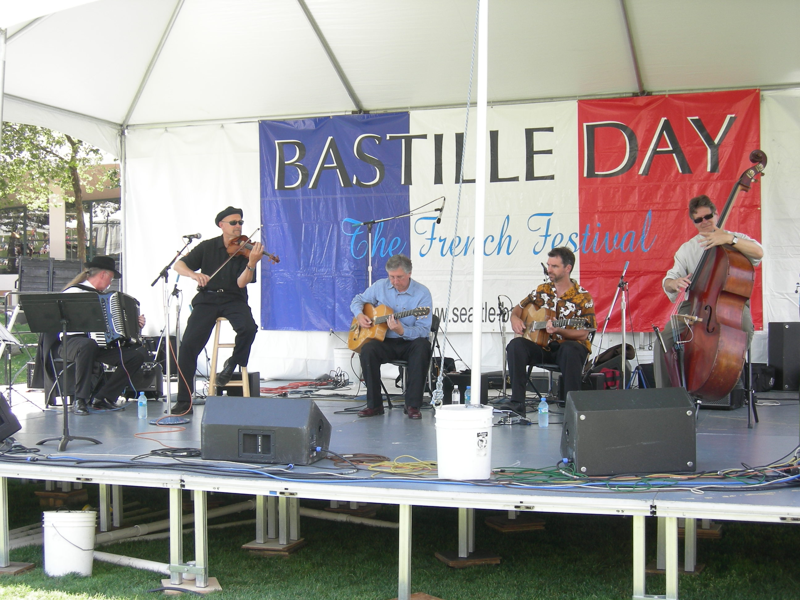 "Gypsy jazz" band Pearl Django perform at the Bastille Day celebration that is part of the Festál series of festivals at Seattle Center, Seattle, Washington.